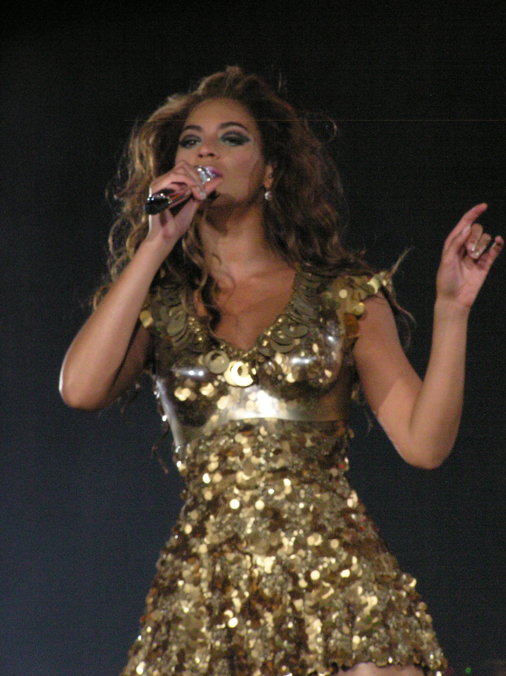 Beyoncé Newcastle 2009